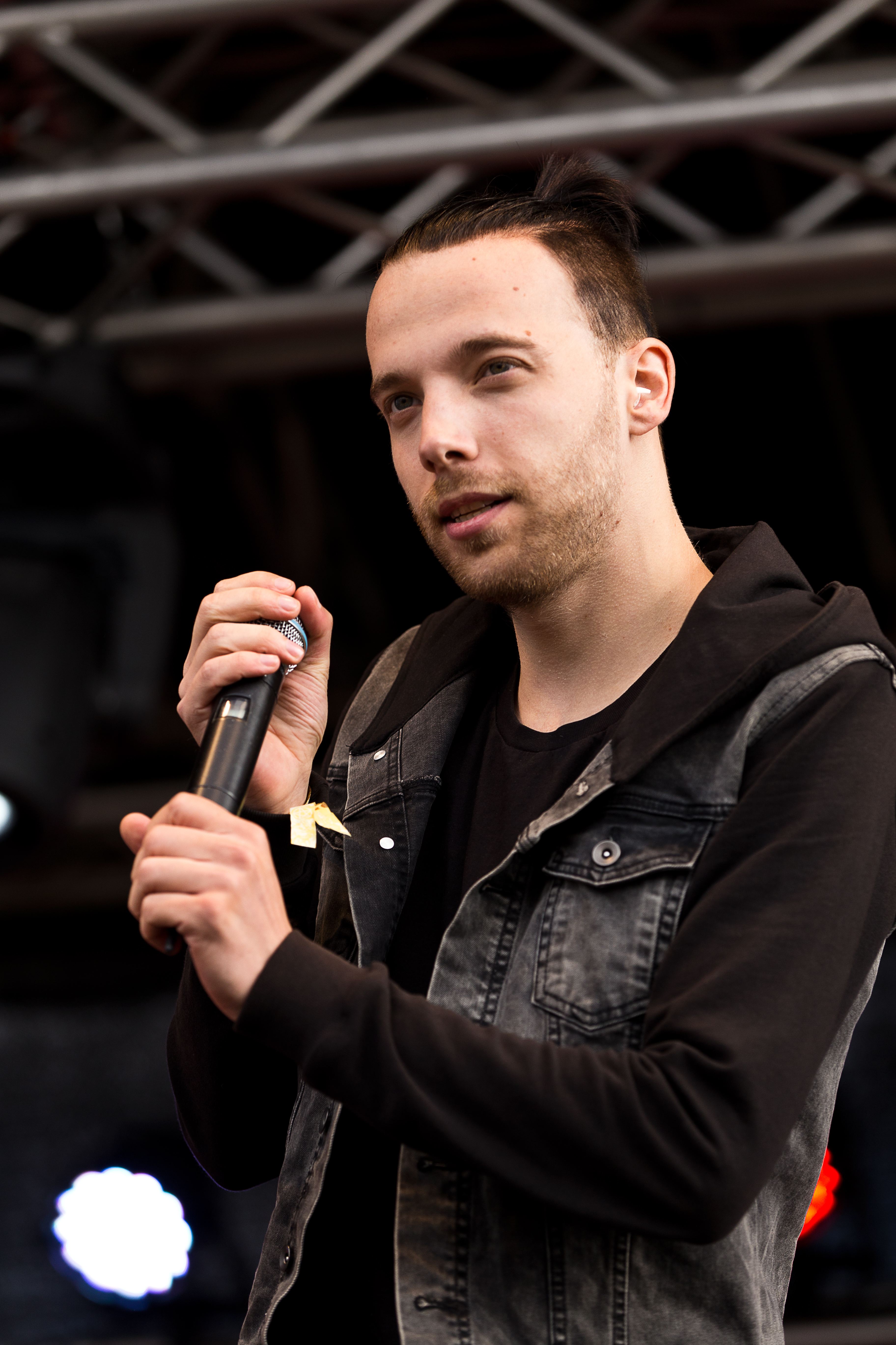 The German deathcore band We Butter the Bread with Butter at the Rockharz Open Air 2015 in Ballenstedt/Germany.